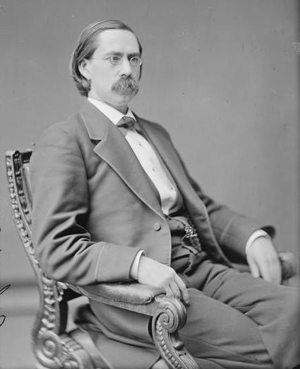 Tarbox, Hon. John Kemble of Mass. Lt. in 8th Mass. Inf.